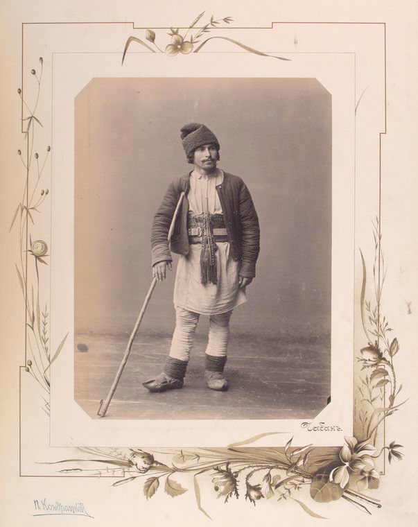 Taban (1889?) Chisinau (Moldova)